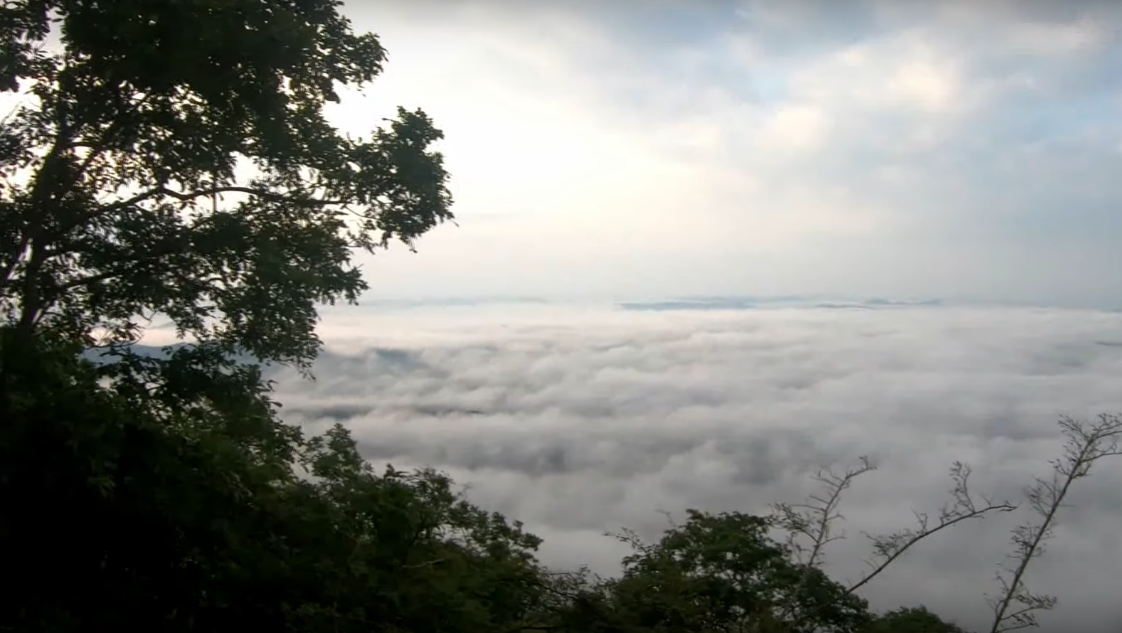 A hill in Mankada